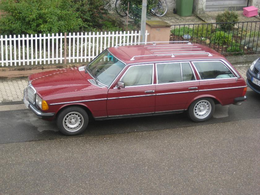 Mercedes 230TE wine red